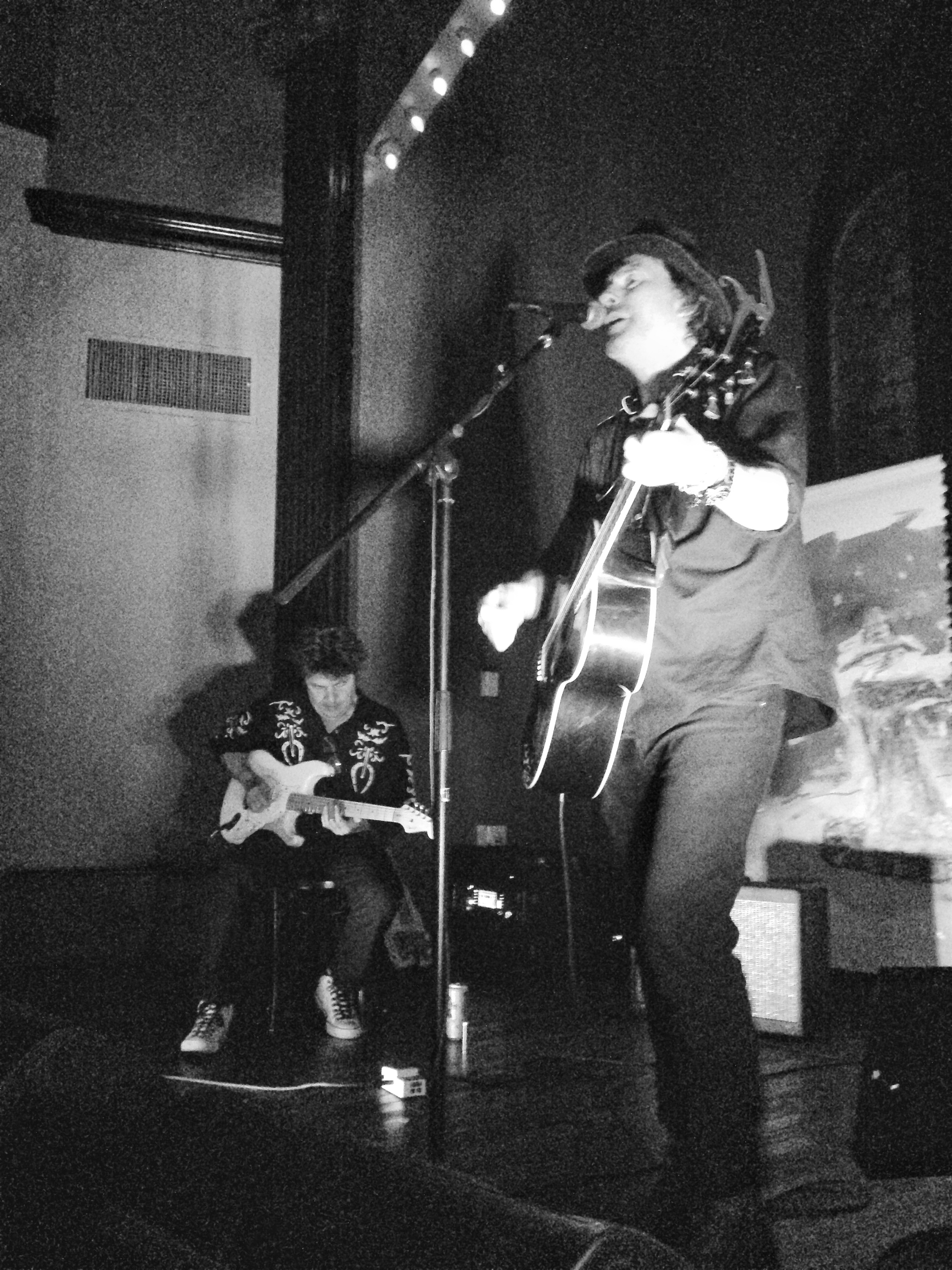 Tommy Stinson and Chip Roberts as Cowboys in the Campfire @ Frank's King William San Antonio, Texas